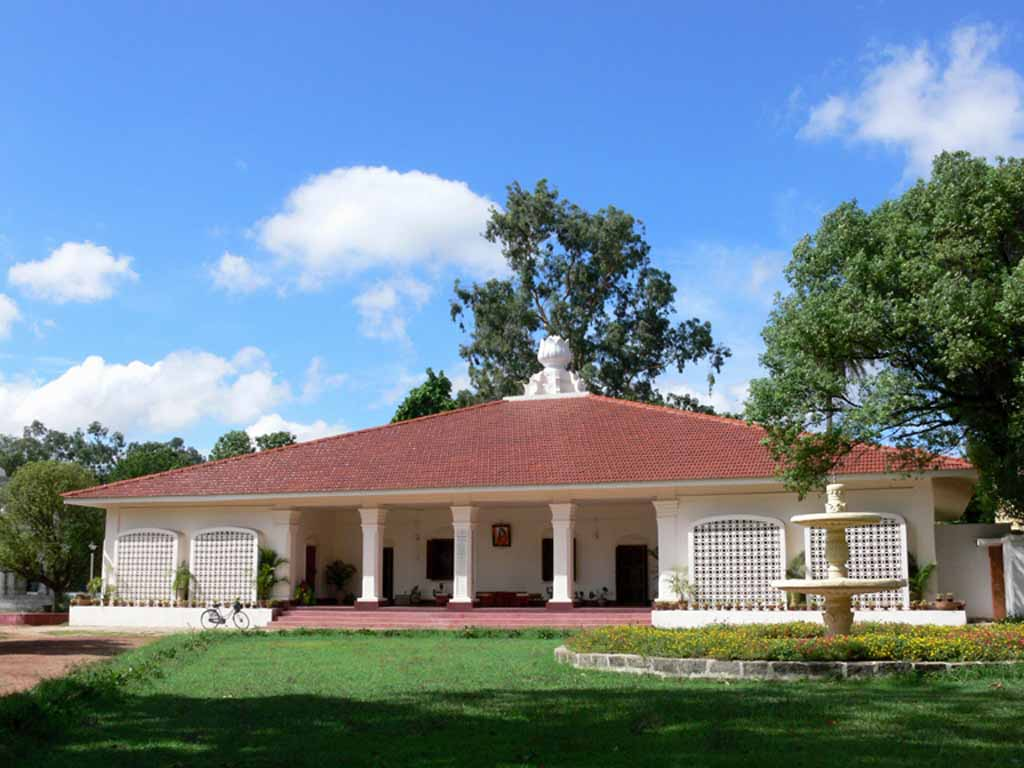 Picture of the Ranchi YSS Ashram